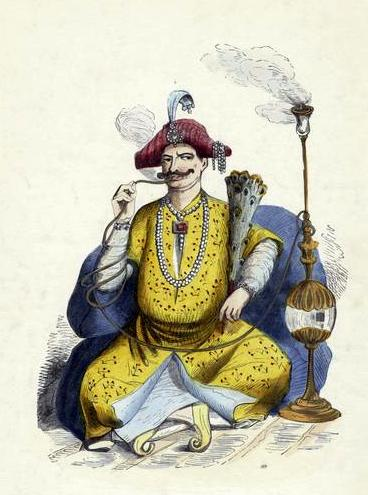 Item Details Collection Mid-Manhattan Picture Collection Costume -- regional -- India Dates / Origin Date Issued: 1845 - 1847 Library locations Art and Picture Collection Shelf locator: PC COSTU-Reg-In Topics Shoes Hats Necklaces Costumes -- East Indian East Indians -- Clothing & dress Men -- Clothing & dress -- India Military officers -- Indic -- China -- Hong Kong -- 1800-1899 Hookahs -- India Princes -- India Notes Content : Title from folder. Content : Written on border: "1853" Written on border: "Hindu prince" Source identifier: 11660 (Hades Legacy Identifier / Struc ID) Type of Resource Still image Identifiers Dynix : 1638295 NYPL catalog ID (B-number) : b17567250 Barcode : 33333159276878 UUID: 6ac28740-c54c-012f-c530-58d385a7bc34